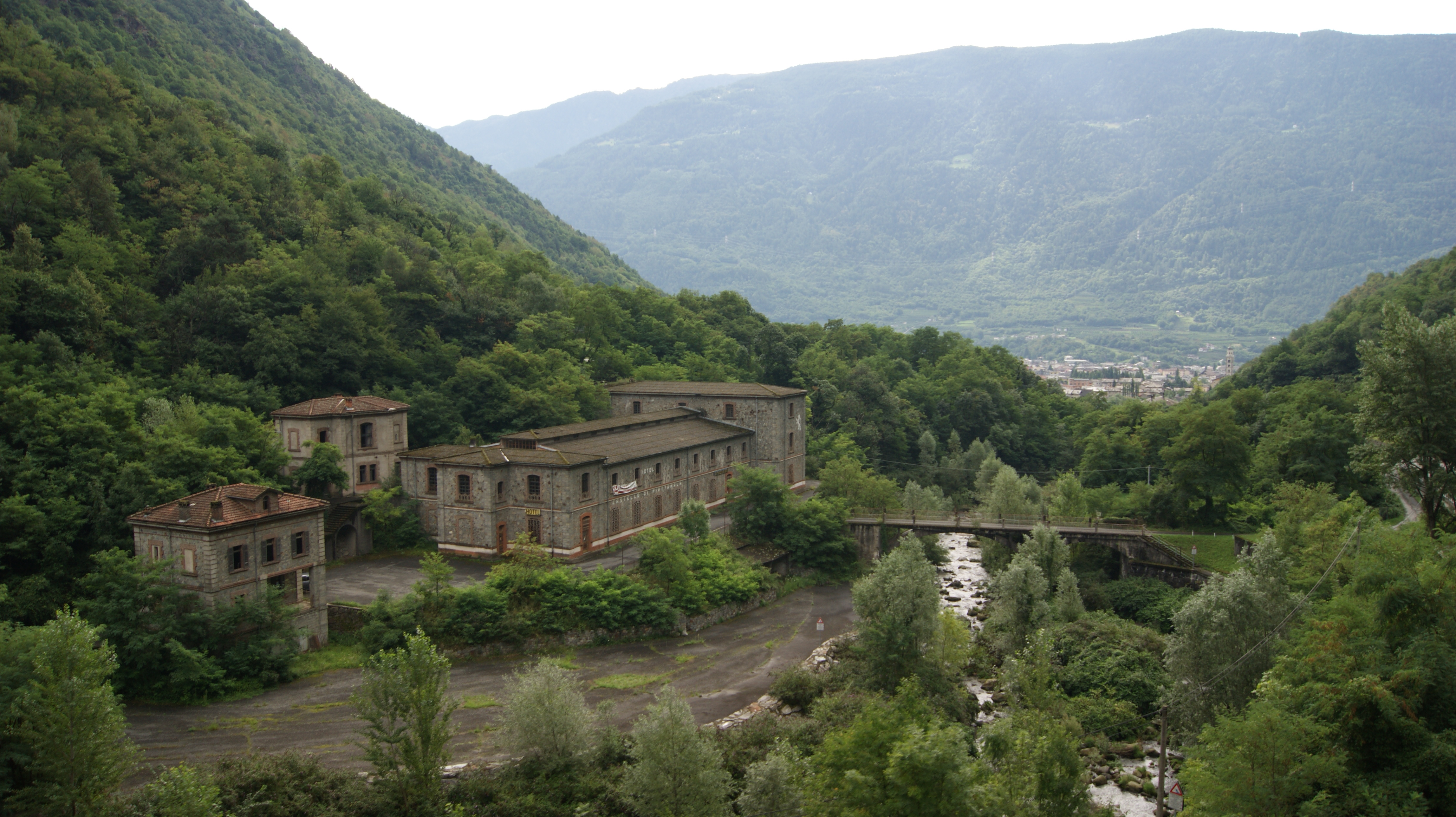 Piattamala and Hotel Castello in Tirano, Valtellina, Sondiro, Lombardy, Italy. View to Tirano.